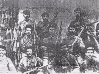 Euthimios Kaudis and Grigorios Vainas and Greek Fighters from Srebreno.